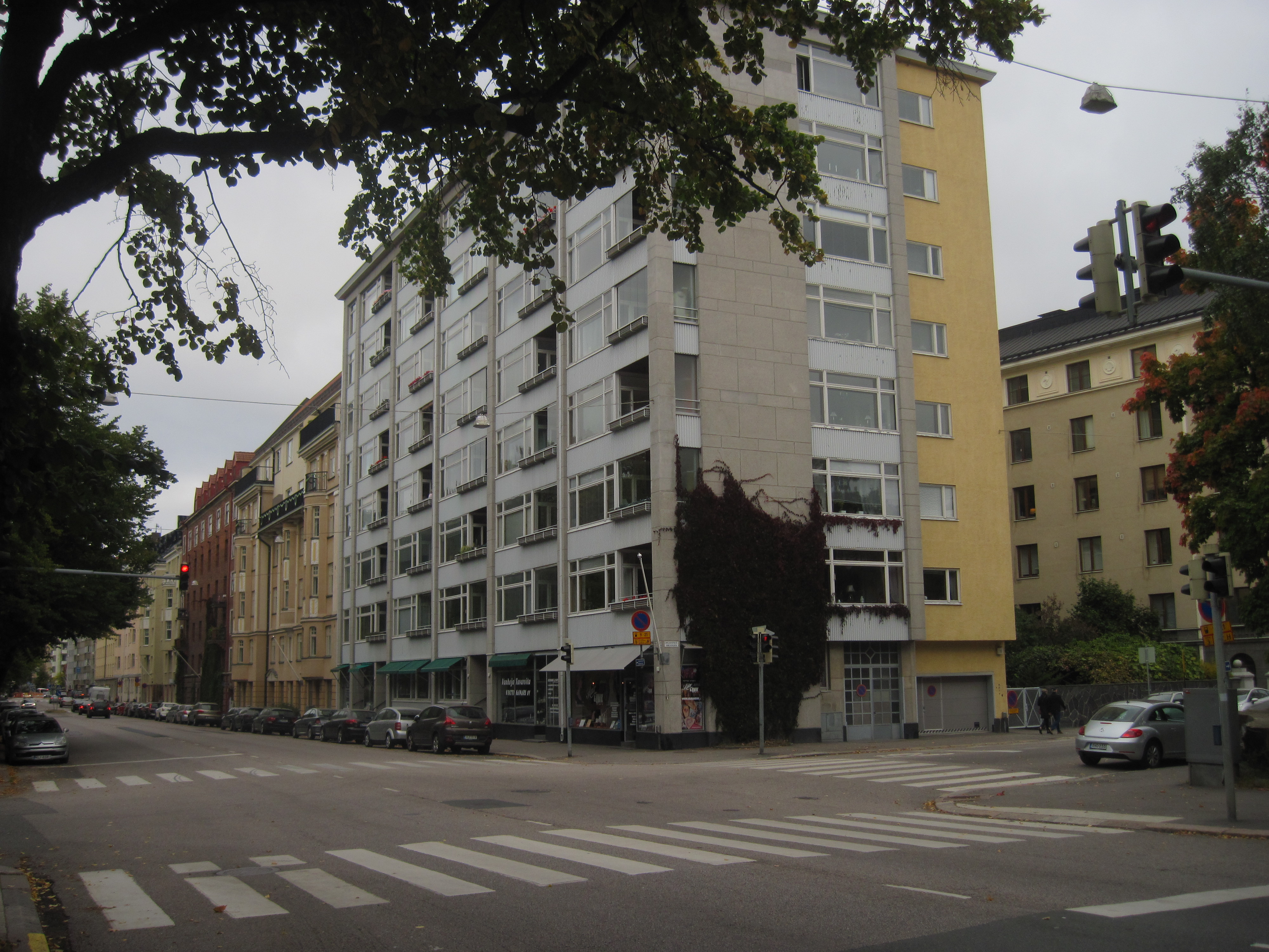 Topeliuksenkatu 7, Helsinki